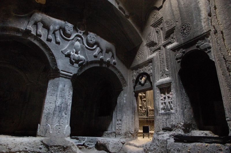 The 13th century Armenian monastery of Geghard: Probably the most striking monastery in Armenia for its inside decoration, carved directly in the rock, troglodyte-style.